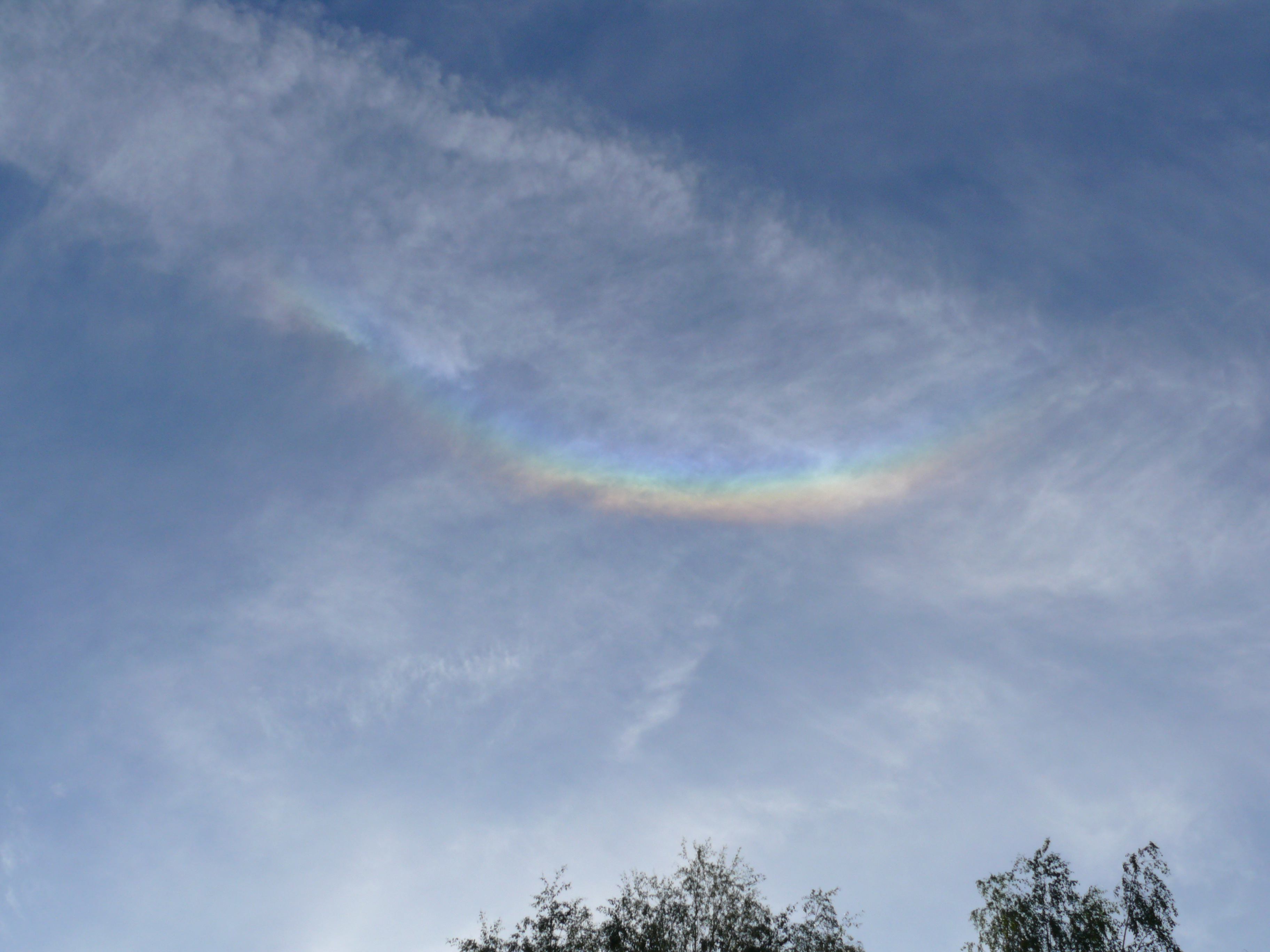 The turned rainbow